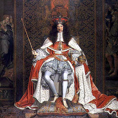 This PNG image has a thumbnail version at File: Charles II of England in Coronation robes.jpg. Generally, the thumbnail version should be used when displaying the file from Commons, in order to reduce the file size of thumbnail images. Any edits to the image should be based on this PNG version in order to prevent generational loss, and both versions should be updated. See here for more information.